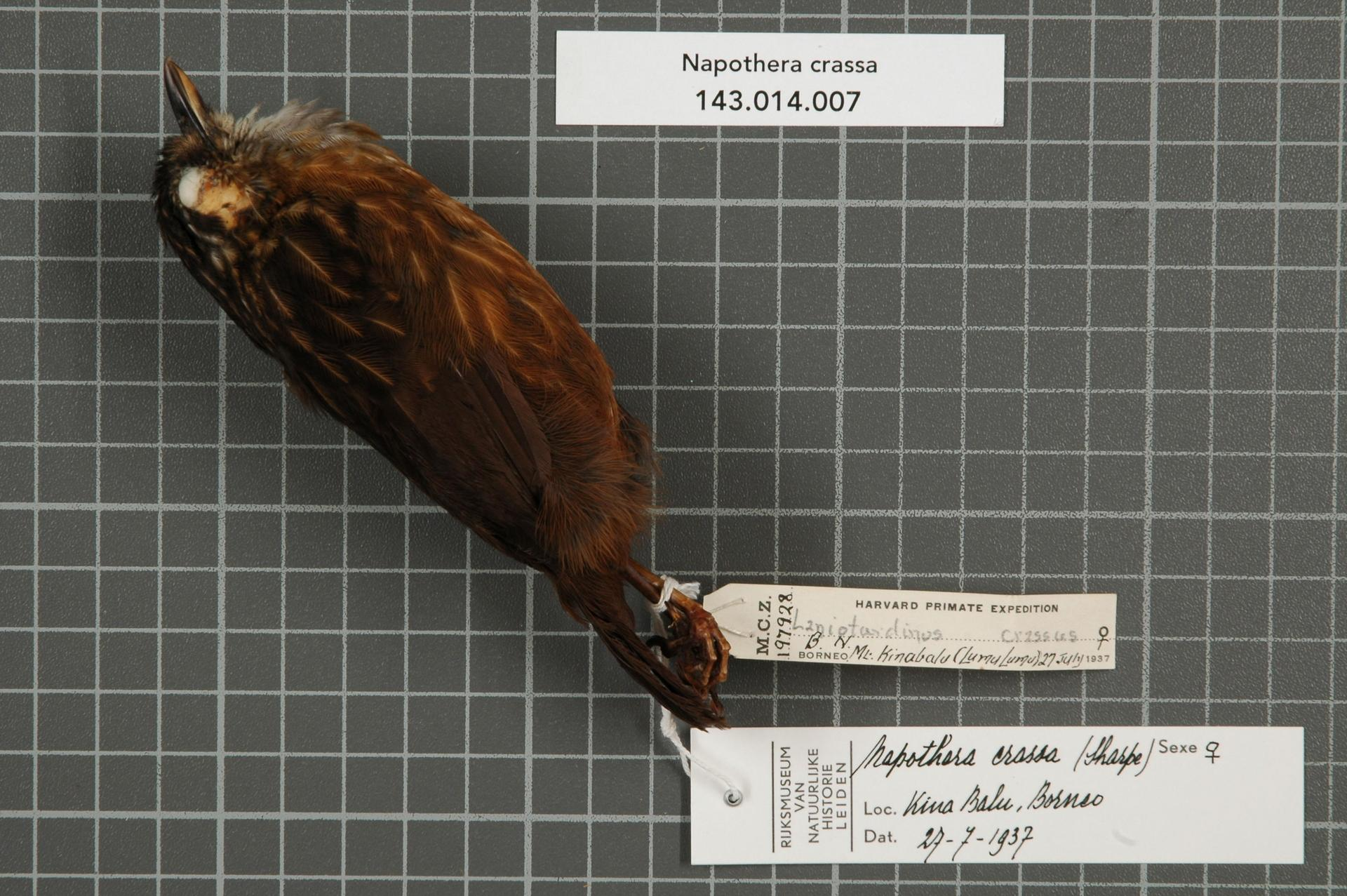 Napothera crassa (Sharpe, 1888)